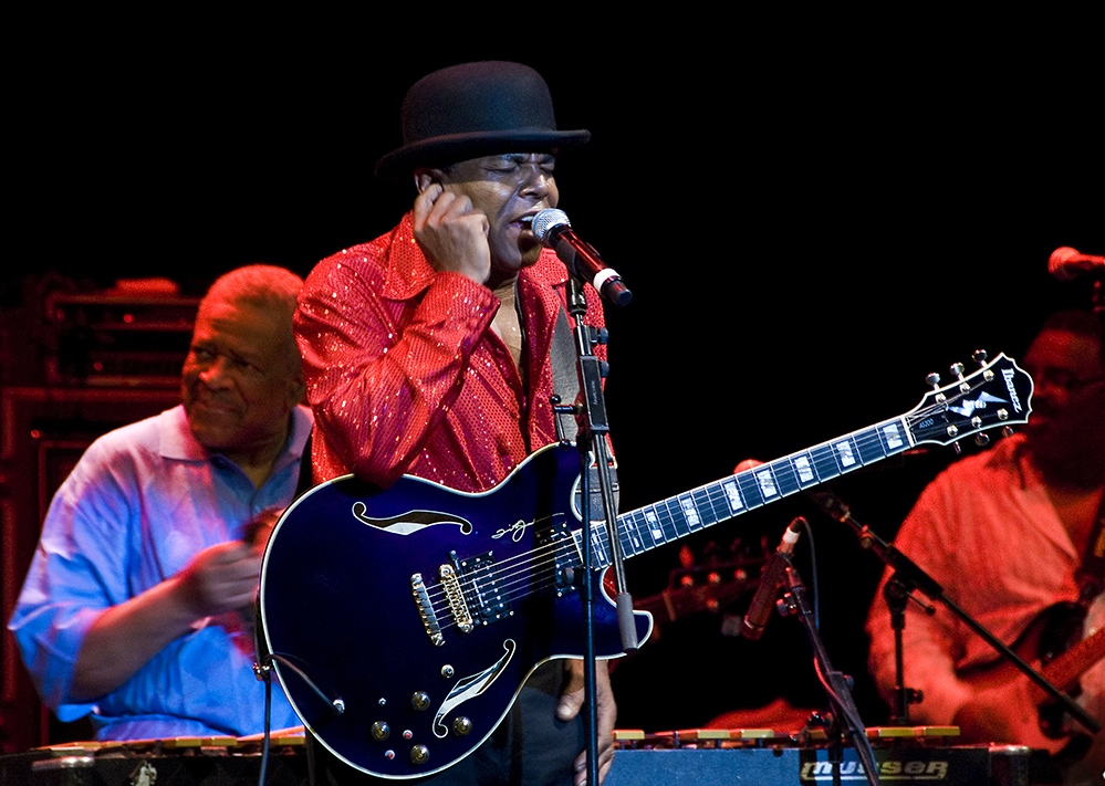 Tito Jackson performing at Motown 50th anniversary celebration in Malaga, Spain July 19, 2009.